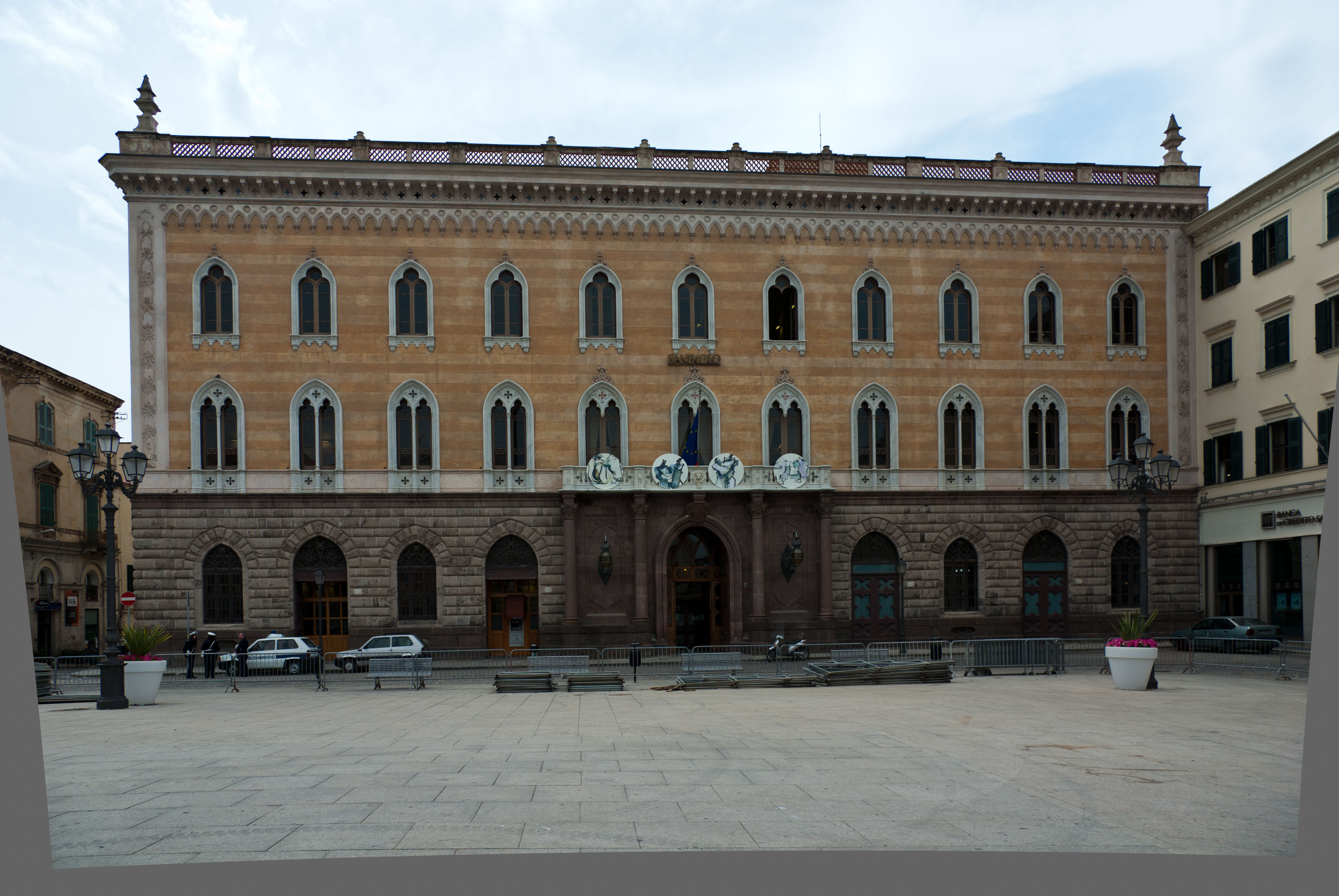 Sassari - Sardinia - neogothic Giordano's Palace